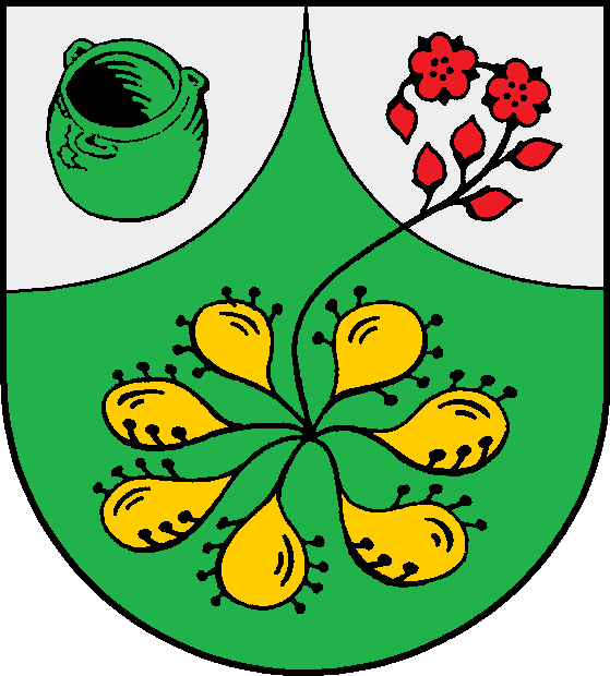 Coat of arms of the municipality Seth in Schleswig-Holstein, Germany.